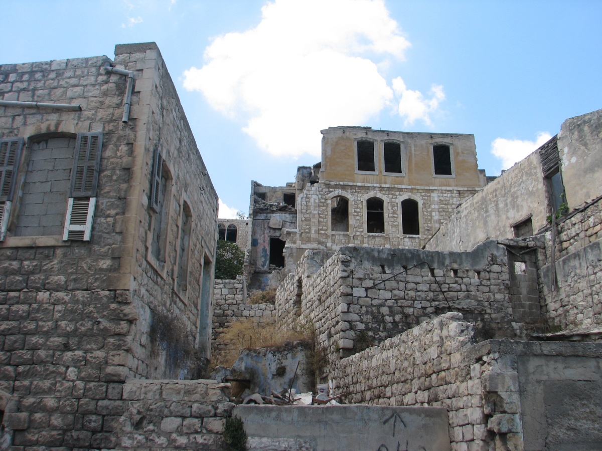 The open heart of Downtown Haifa Israel.